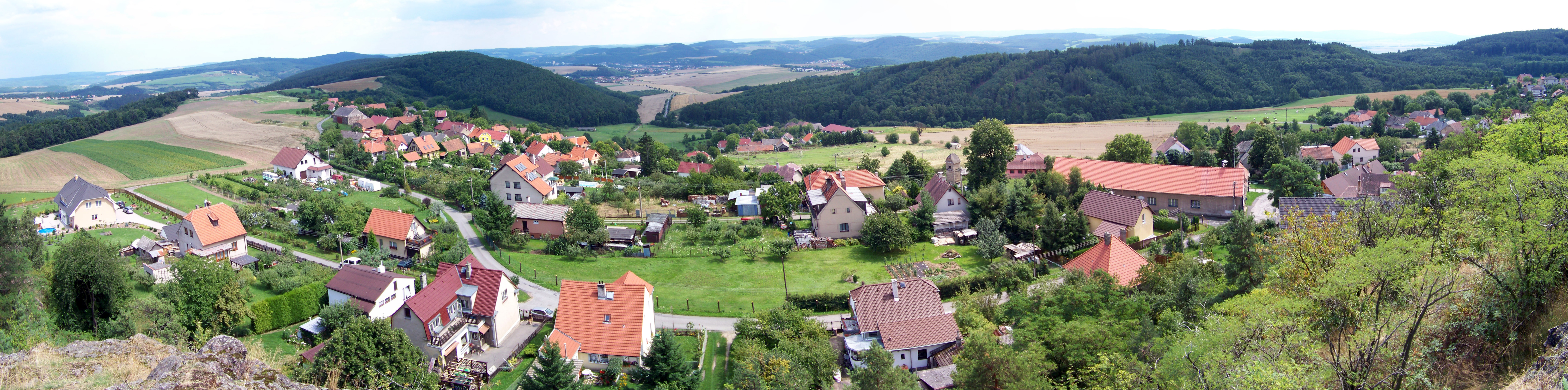 Svatá, Beroun District, Central Bohemian Region, the Czech Republic. A view of Svatá from Svatá Rock.